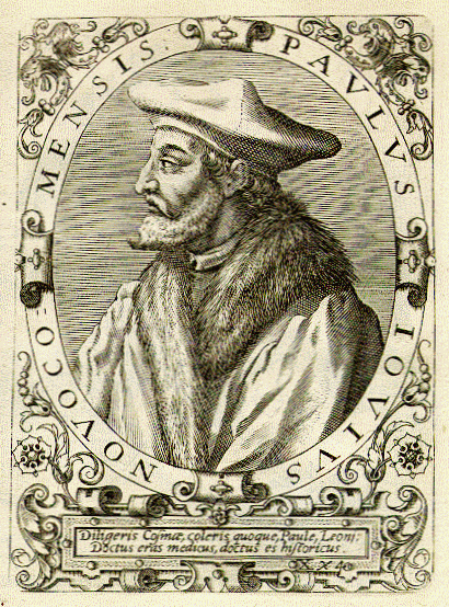 Paolo Giovio shown in Jean-Jacques Boissard's book Bibliotheca chalcographica ... (1652-1669)